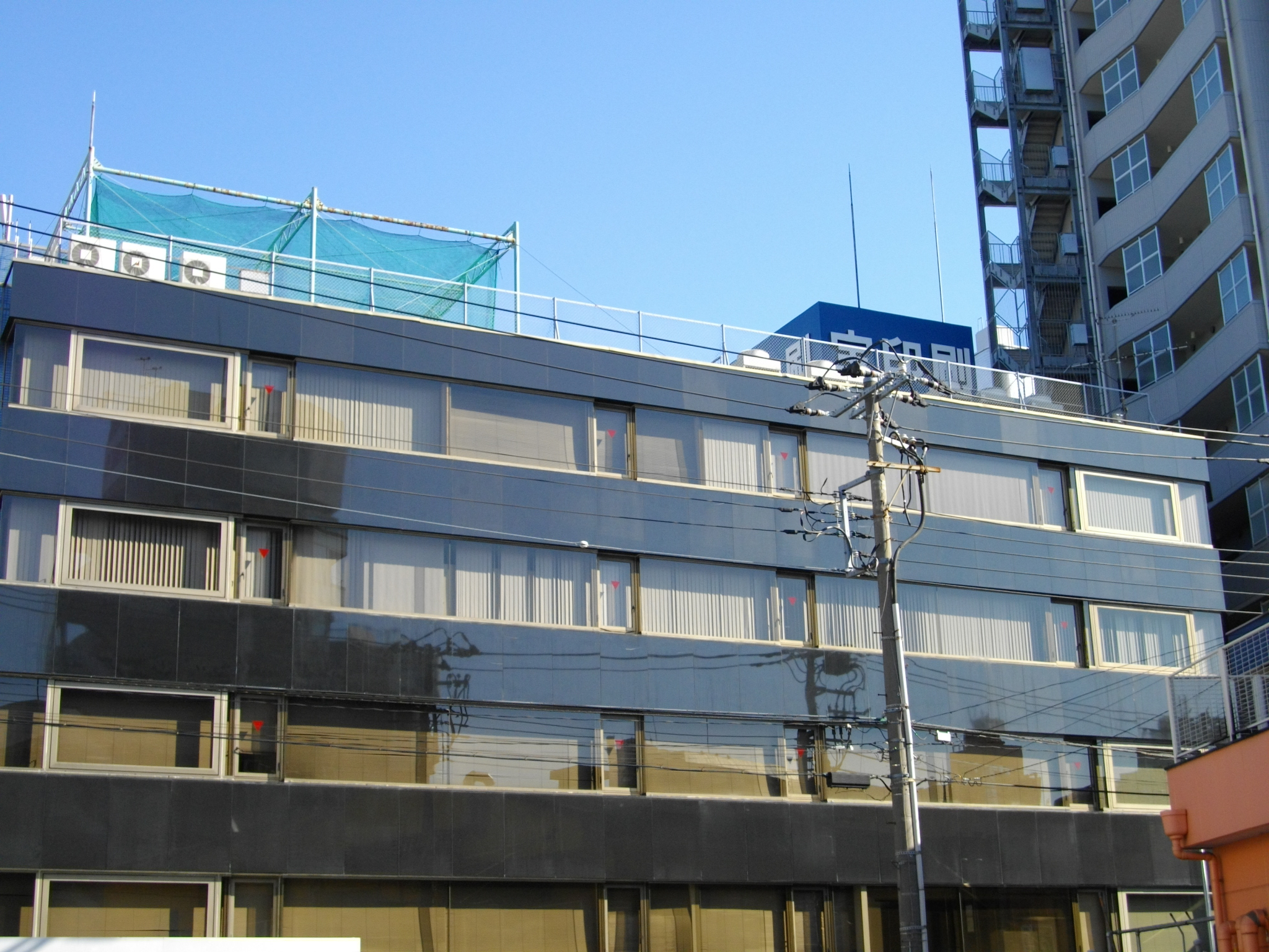 Takara Printing Co. Head Office